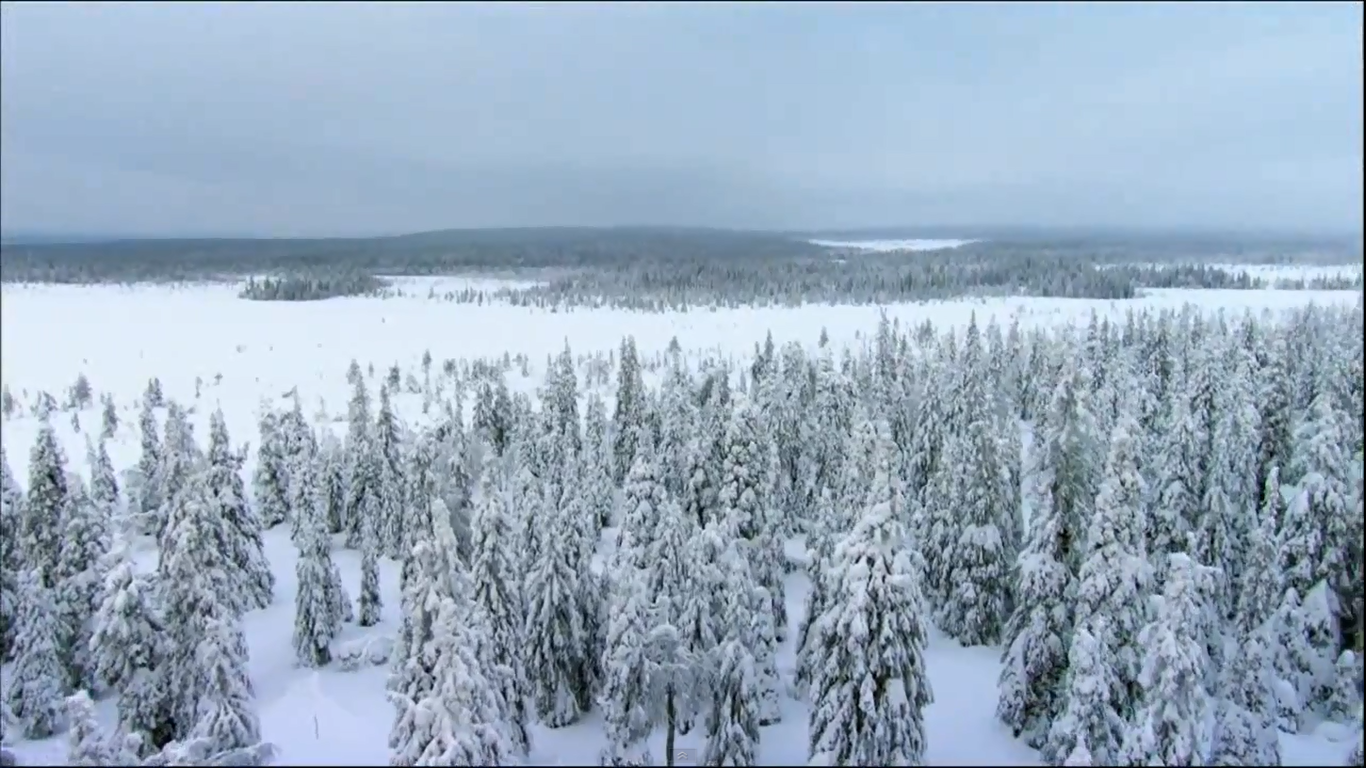 A typical winter scene in Finland, isn't it beautiful !